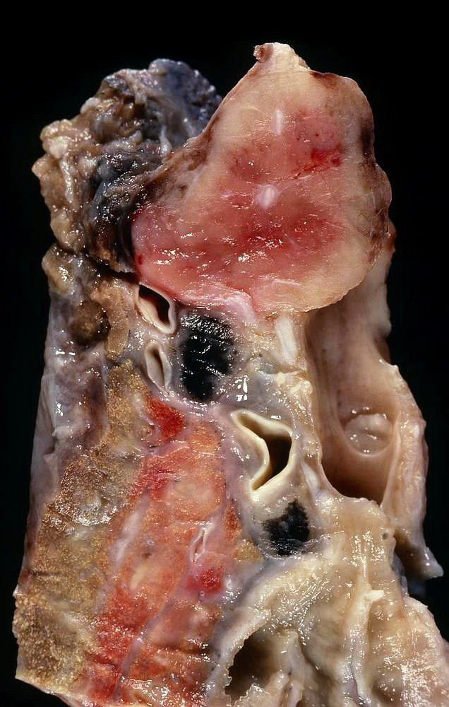 Large, polypoid, tan neoplasm within the lumen of a major bronchus producing bronchial obstruction and obstructive pneumonia.